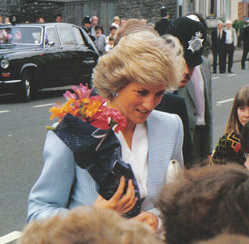 Princess Diana on a royal visit for the official opening of the community centre on Whitehall Road, Bristol in May 1987.